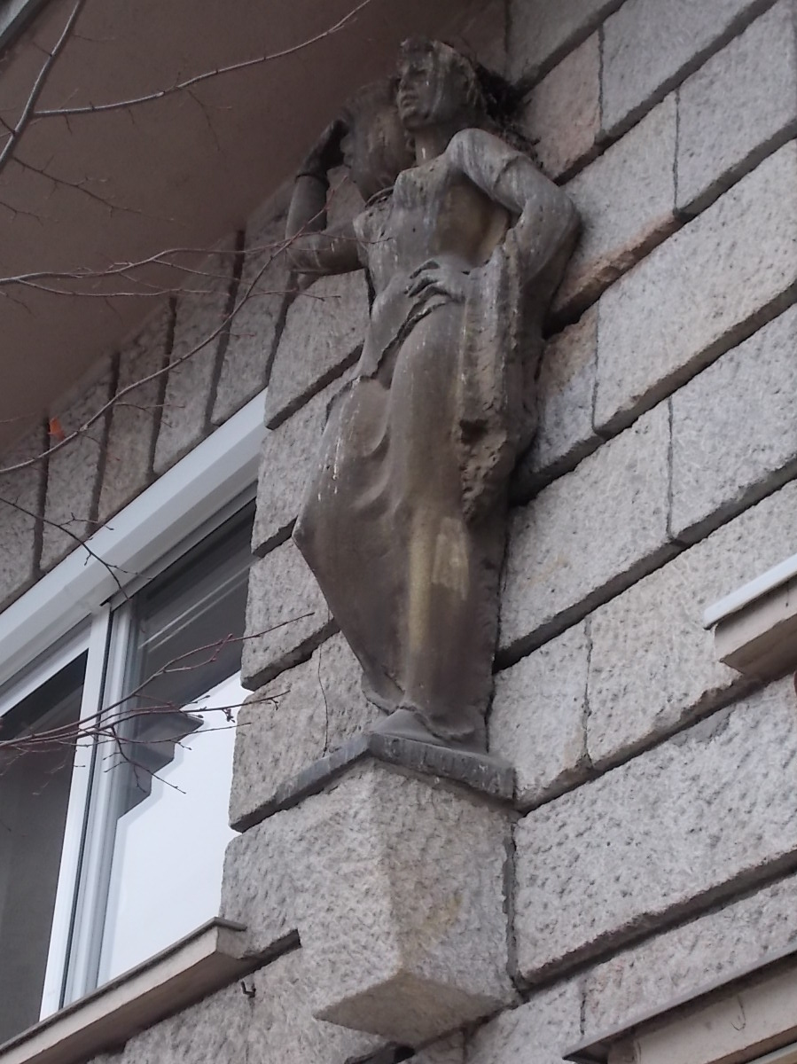 Woman with a watercup. - Zsigmond Móricz Square, Szentimreváros neighborhood, Budapest District XI. Hungary.